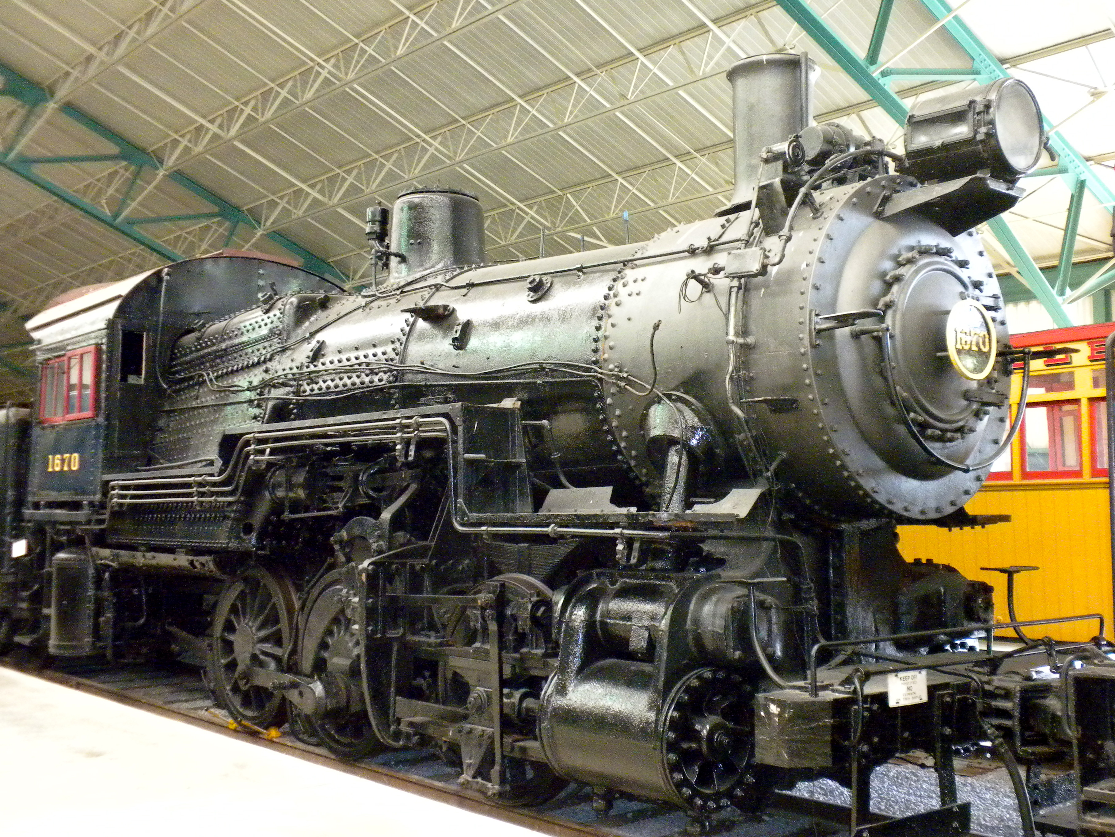 PRR steam locomotive No. 1670 at the Railroad Museum of Pennsylvania, east of Strasburg, PA. On NRHP since 1979. Was built in the Juniata shops in 1916, type 0-6-0. PRR class B6sb